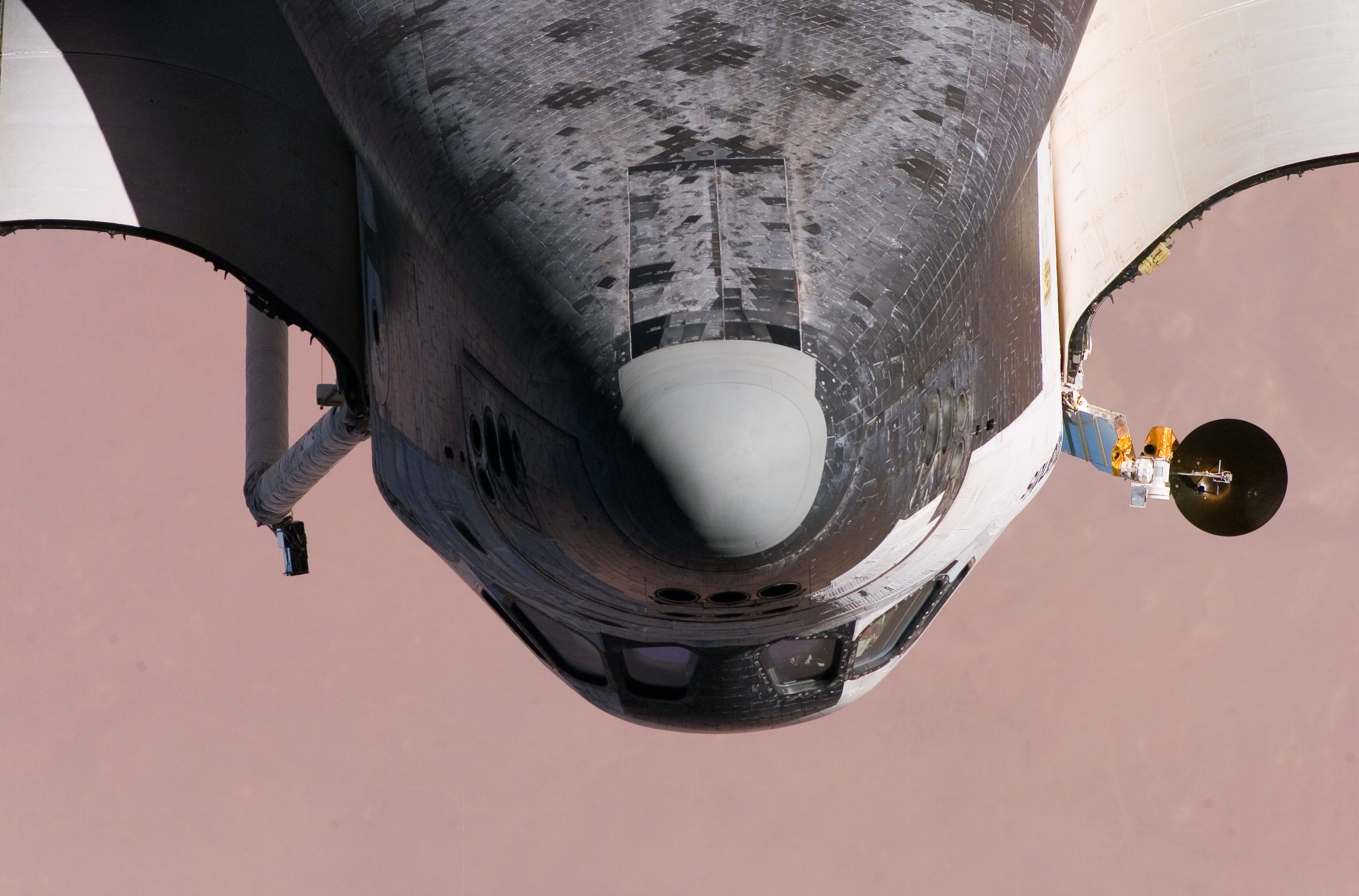 This view of the nose and part of the underside of the Space Shuttle Atlantis was provided by an Expedition 13 crew member during a backflip maneuver performed by the approaching visitors to the International Space Station. The Ku-band antenna, very important in communications operations, is visible on the port side of the orbiter.